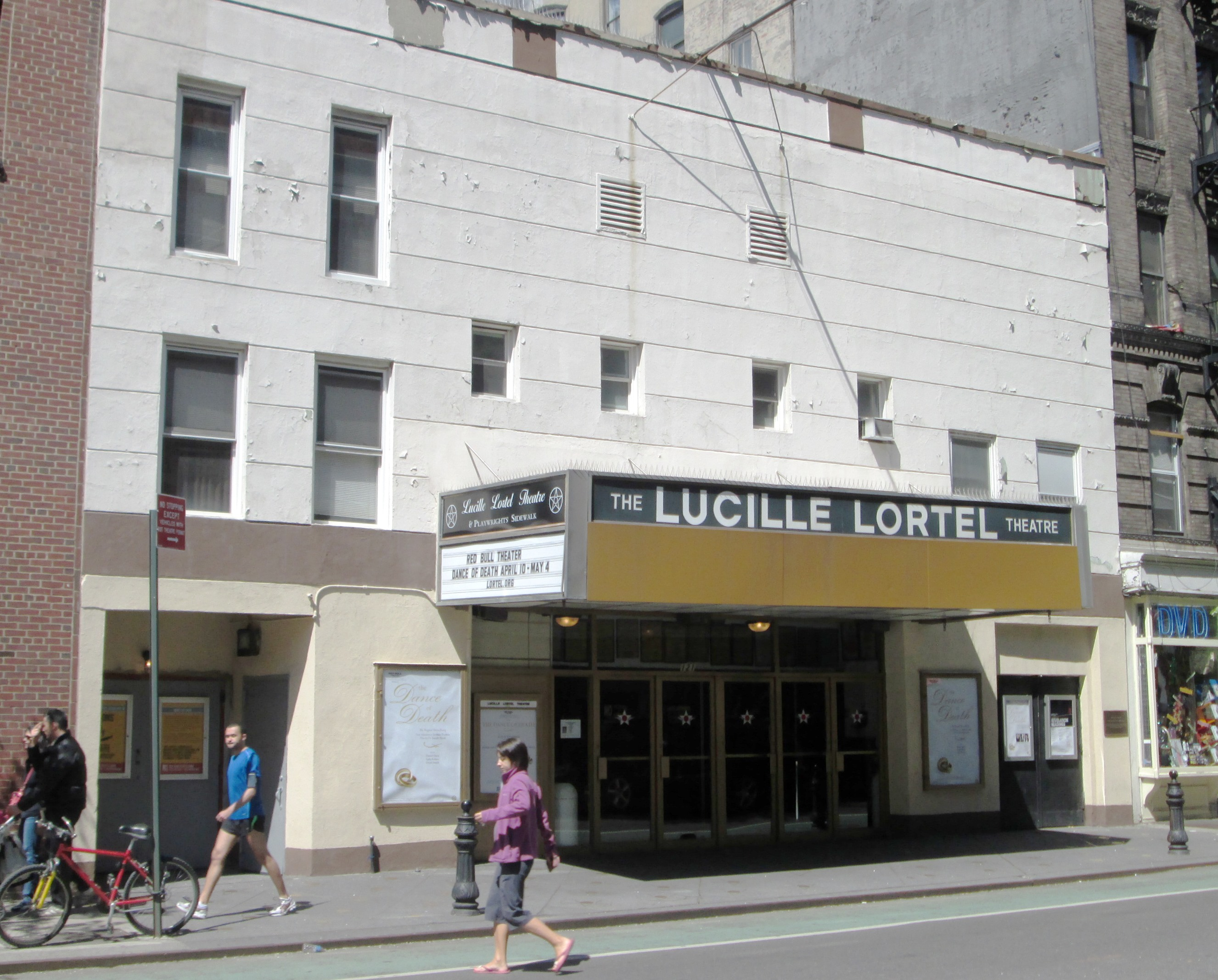 The Lucille Lortel Theatre is an Off-Broadway playhouse located at 121 Christopher Street between Hudson and Bleecker Streets in the West Village neighborhood of Manhattan, New York City. It was built in 1926 as a movie theater (the New Hudson, Hudson Playhouse), and became an Off-Broadway theatre in 1953 as Theatre de Lys. In 1955, financier Louis Schweitzer acquired the building as an anniversary present for his wife, actress-producer Lucille Lortel. In 1981, the year of her 81st birthday, the theatre was renamed in her honor. After Lortel's death, the theatre was left to the Lucille Lortel Foundation.